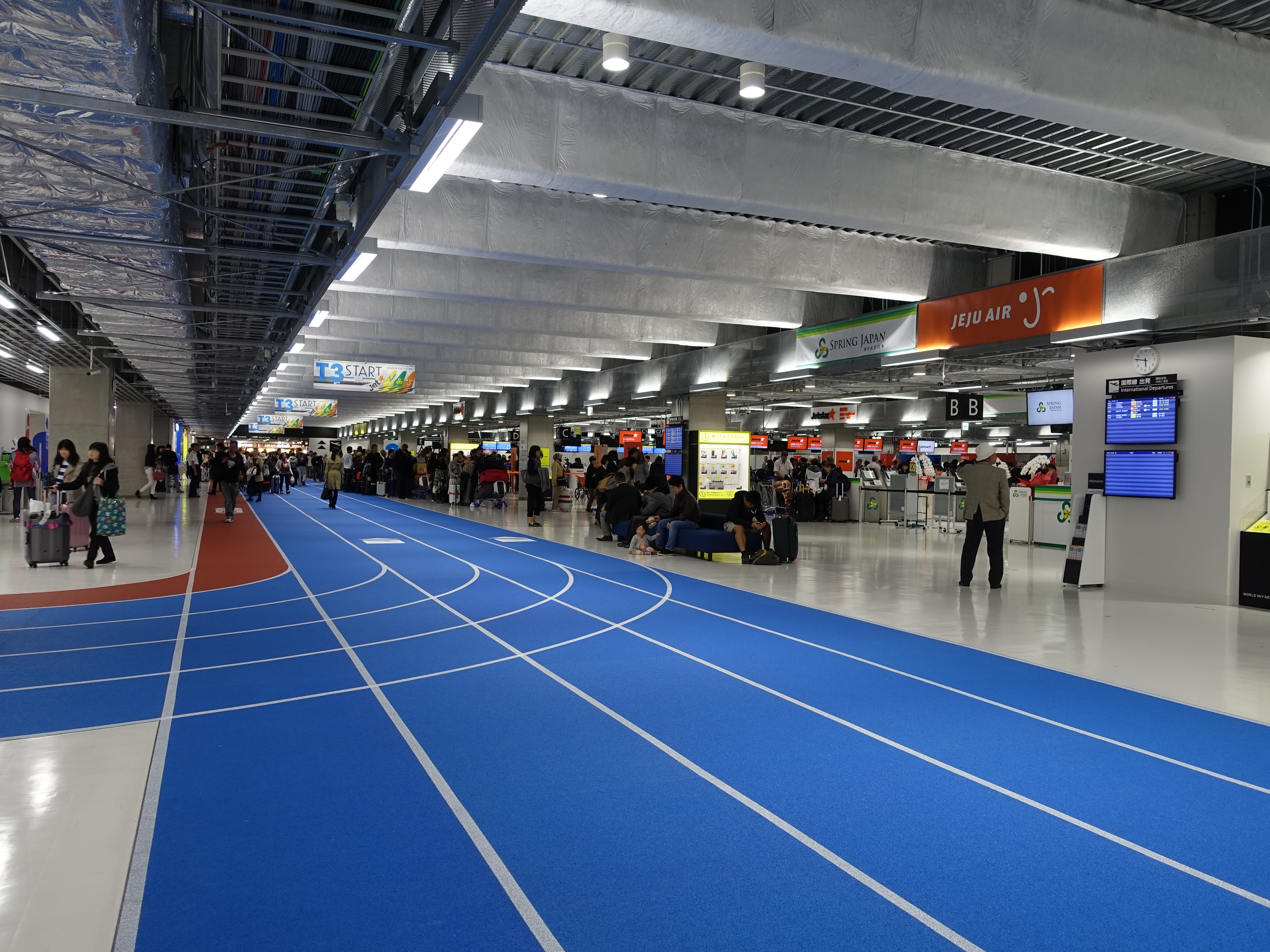 Narita Airport Departure Lobby (2nd floor)